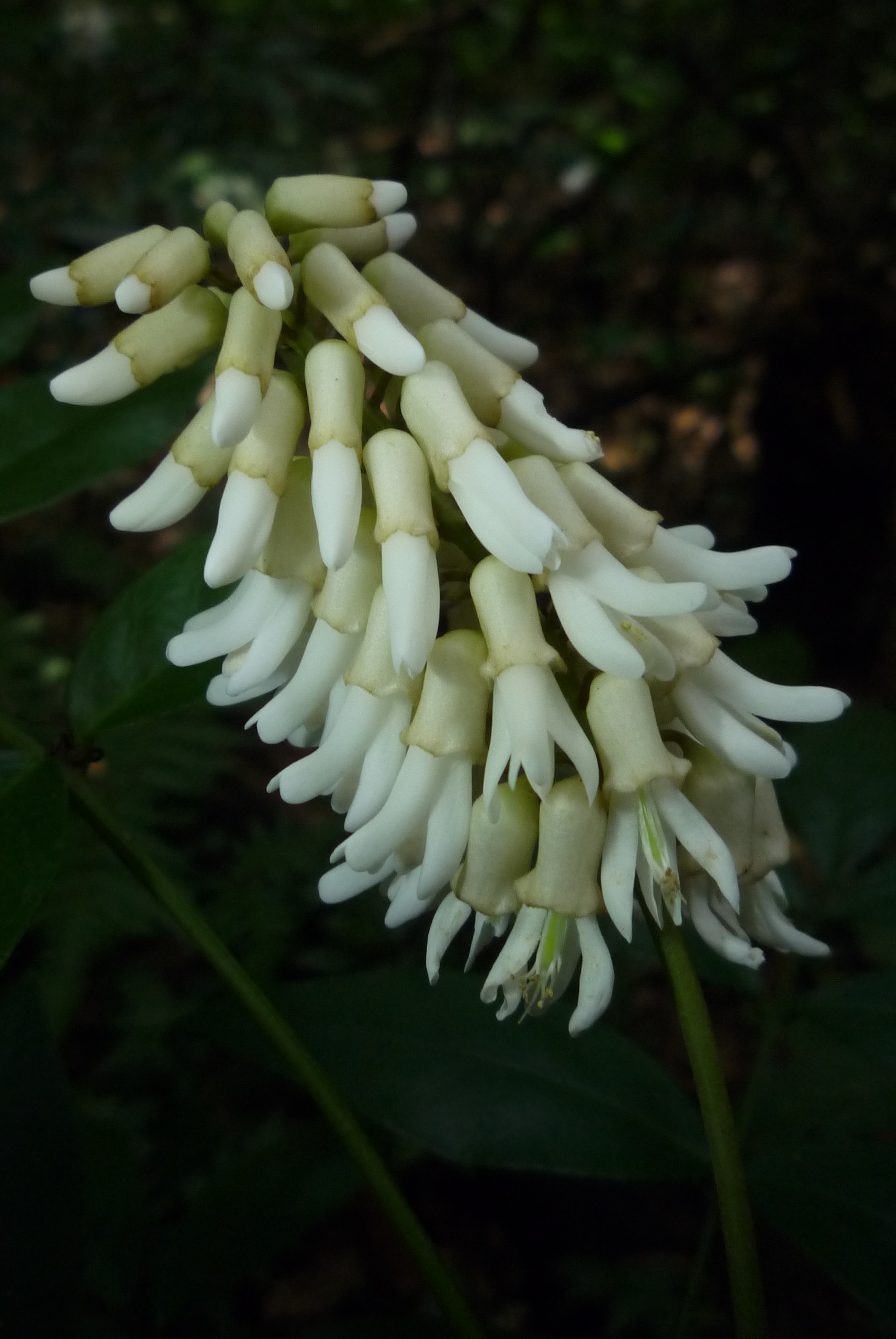 Inflorescence of Euchresta formosana. Yangmingshan National Park, Taiwan.